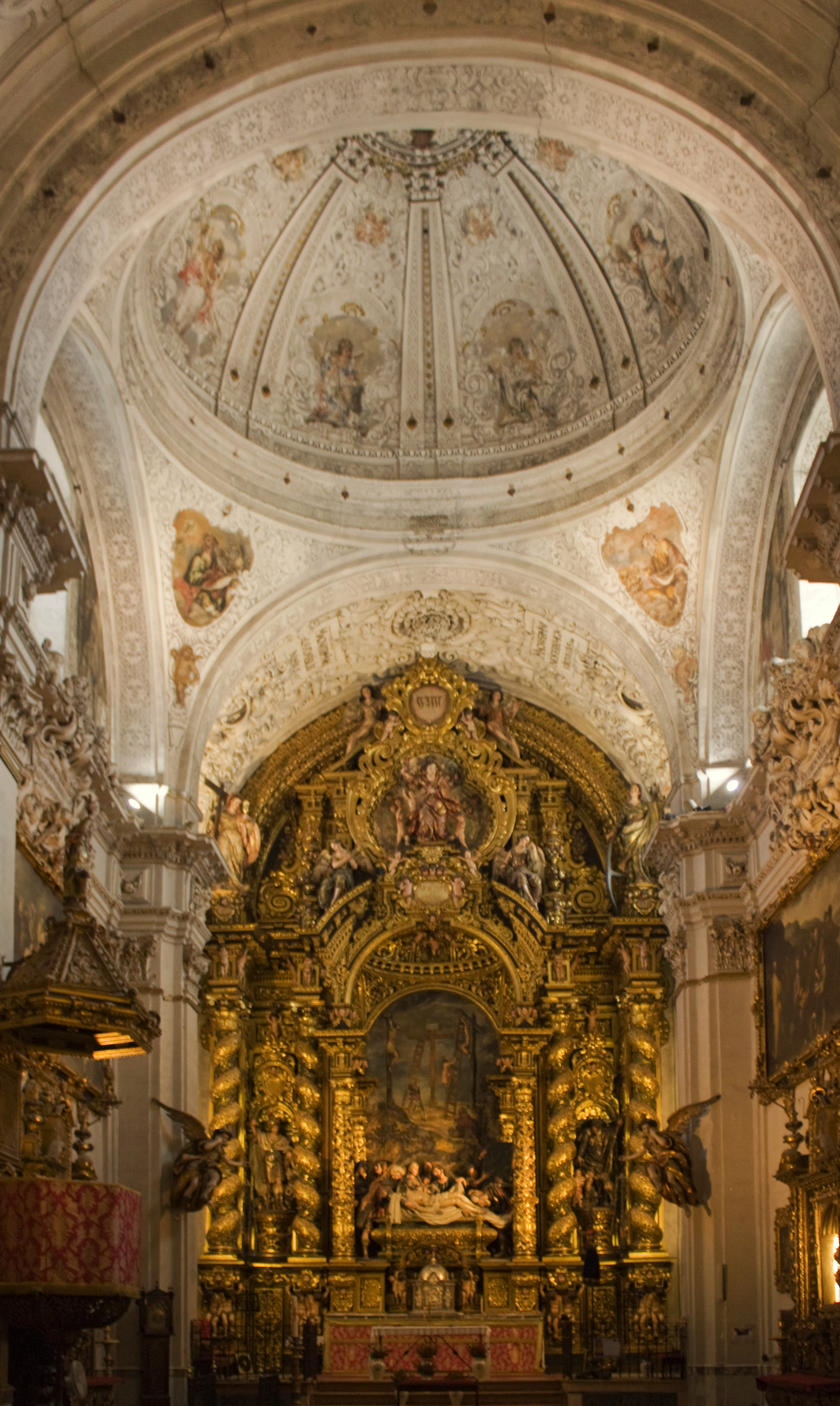 The nave of the church of Charity was built in accordance with the plan of the architect Pedro Sánchez Falconete(1645).